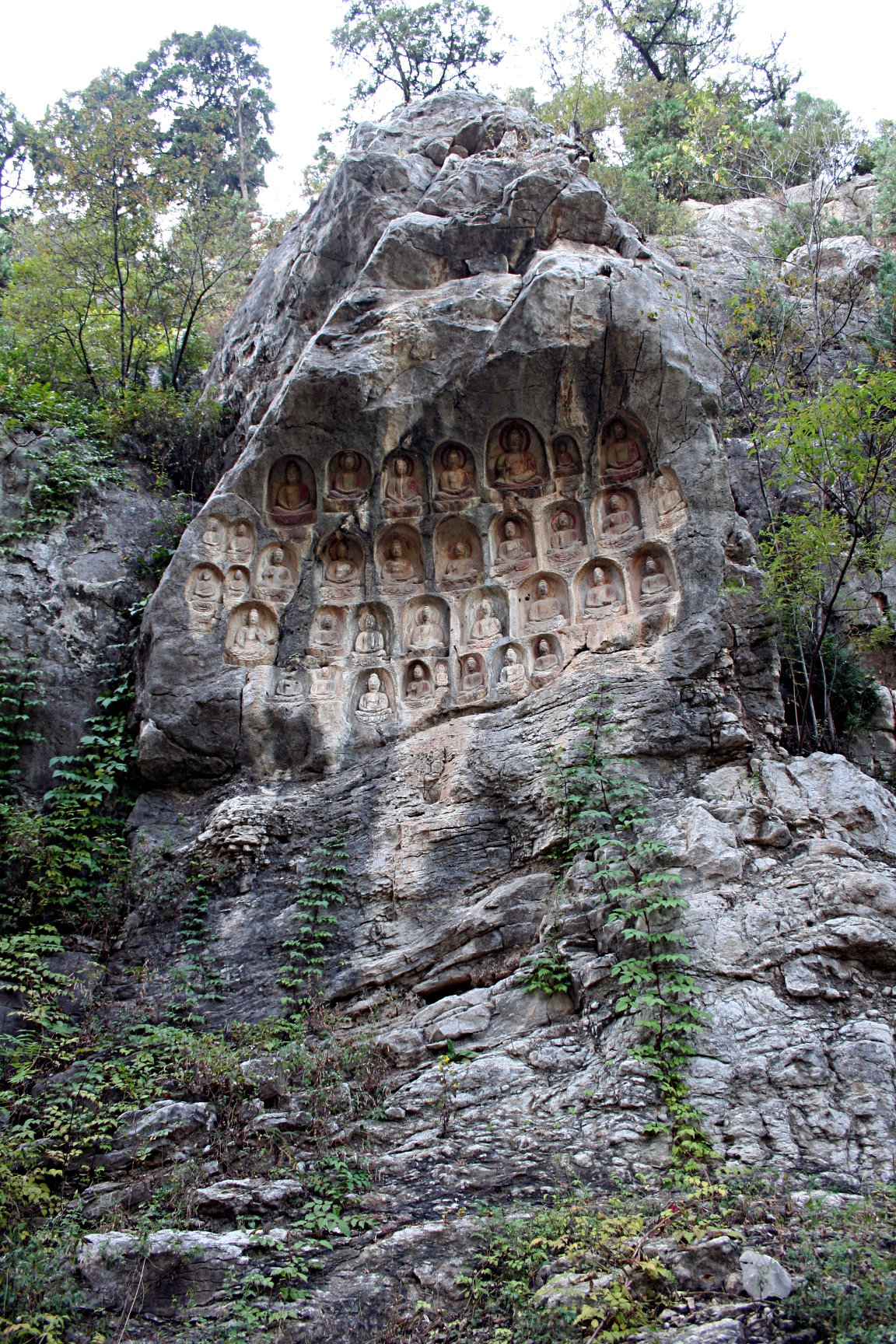 Photograph of carved sculptures on the Thousand Buddha Cliff in Shandong Province, China.